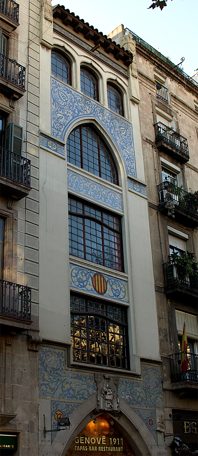 Casa Doctor Genové - Catalan Modernisme (1911, Enric Sagnier i Villavecchia)